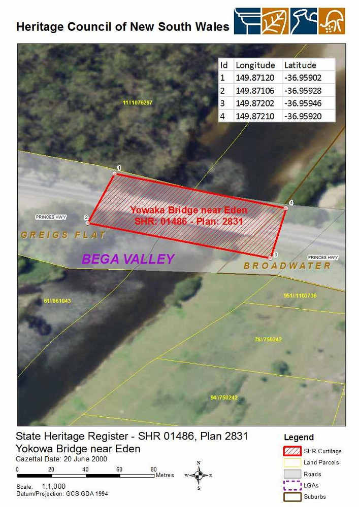 Yowaka River bridge, Greigs Flat: SHR Plan No 2831